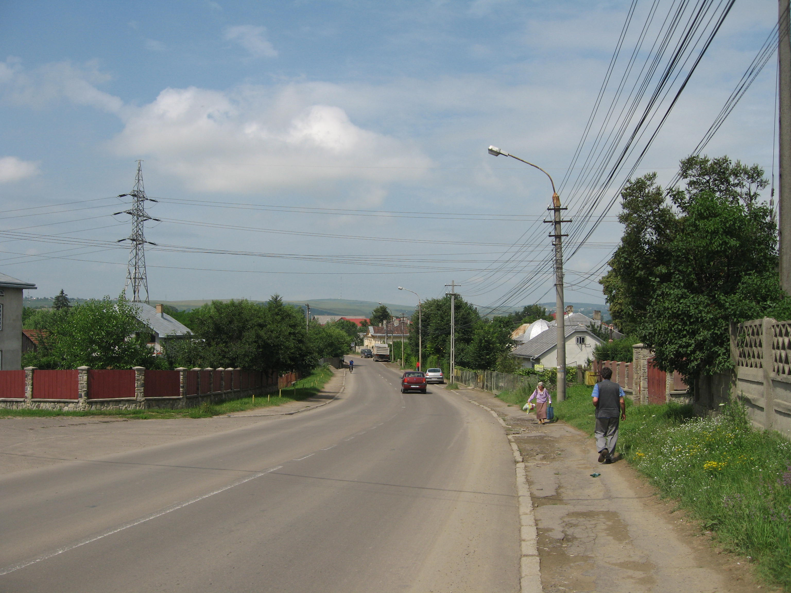 Gheorghe Doja Street in Iţcani, Suceava.